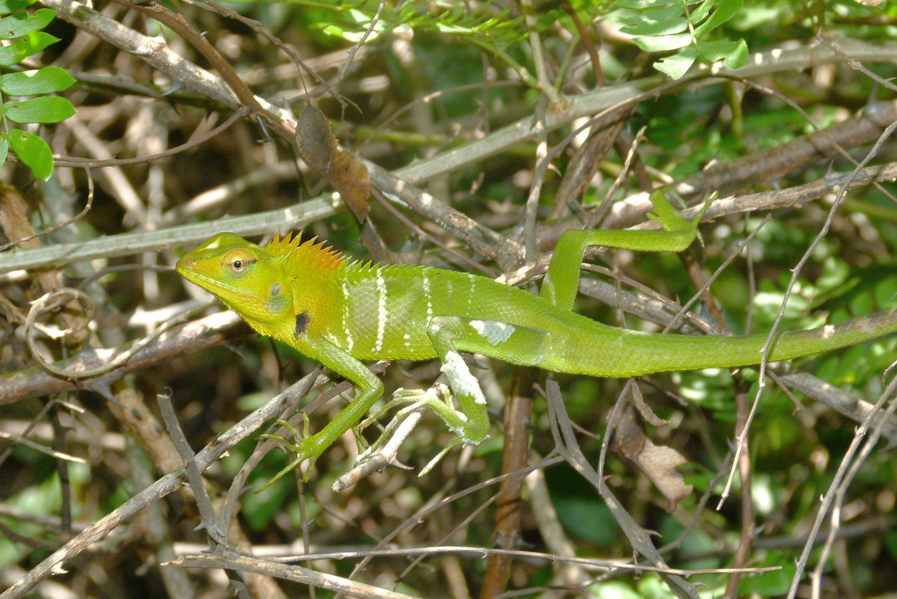 Calotes calotes, breeding male seen in the Eastern Ghats near Gingee